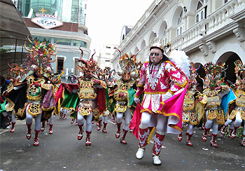 In the photo, the Archangel Michael leading a troop of devils artistic and cultural fraternity "The Diablada" on the day of the devil and Tan Carnaval de Oruro "Masterpiece of Oral and Intangible Heritage of Humanity" UNESCO. The Diablada, dance primeval Oruro.